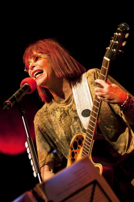 Brazilian musician Rita Lee onstage at Credicard Hall, Sao Paulo.